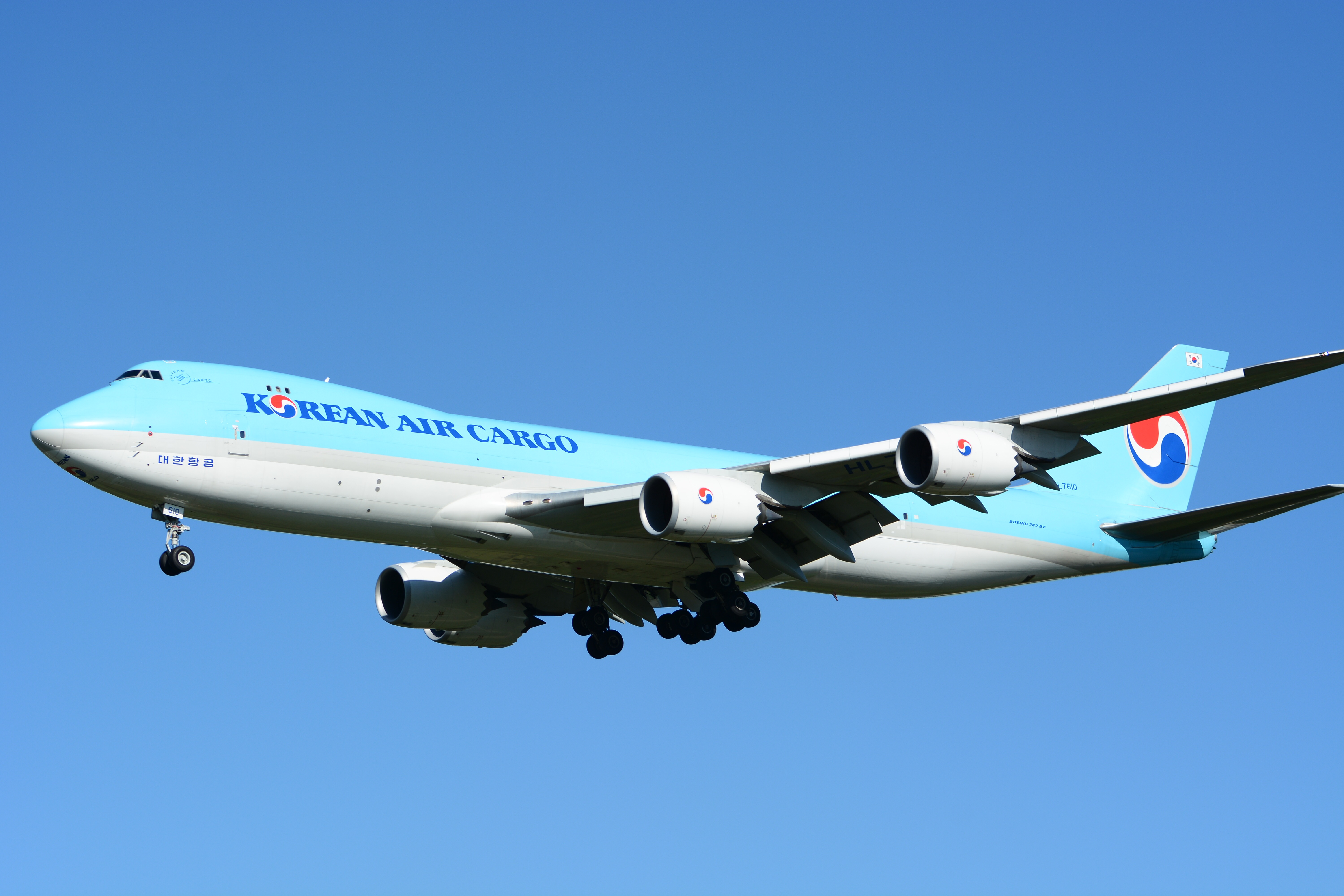 Korean Air Cargo Boeing 747-8F HL7610 NRT